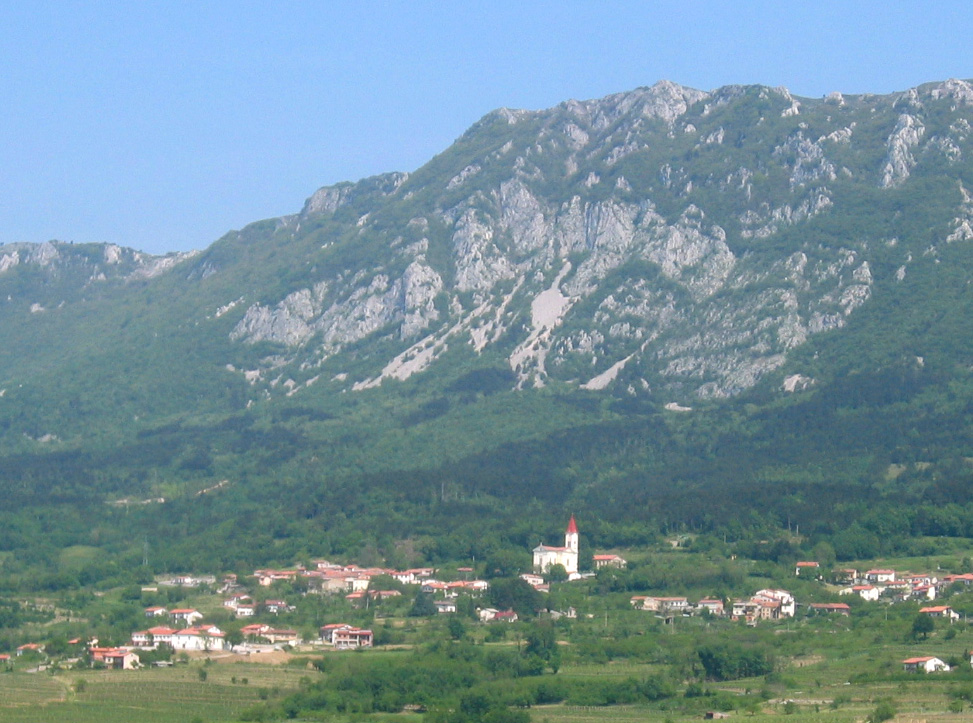 Budanje, a village in the Municipality of Ajdovščina